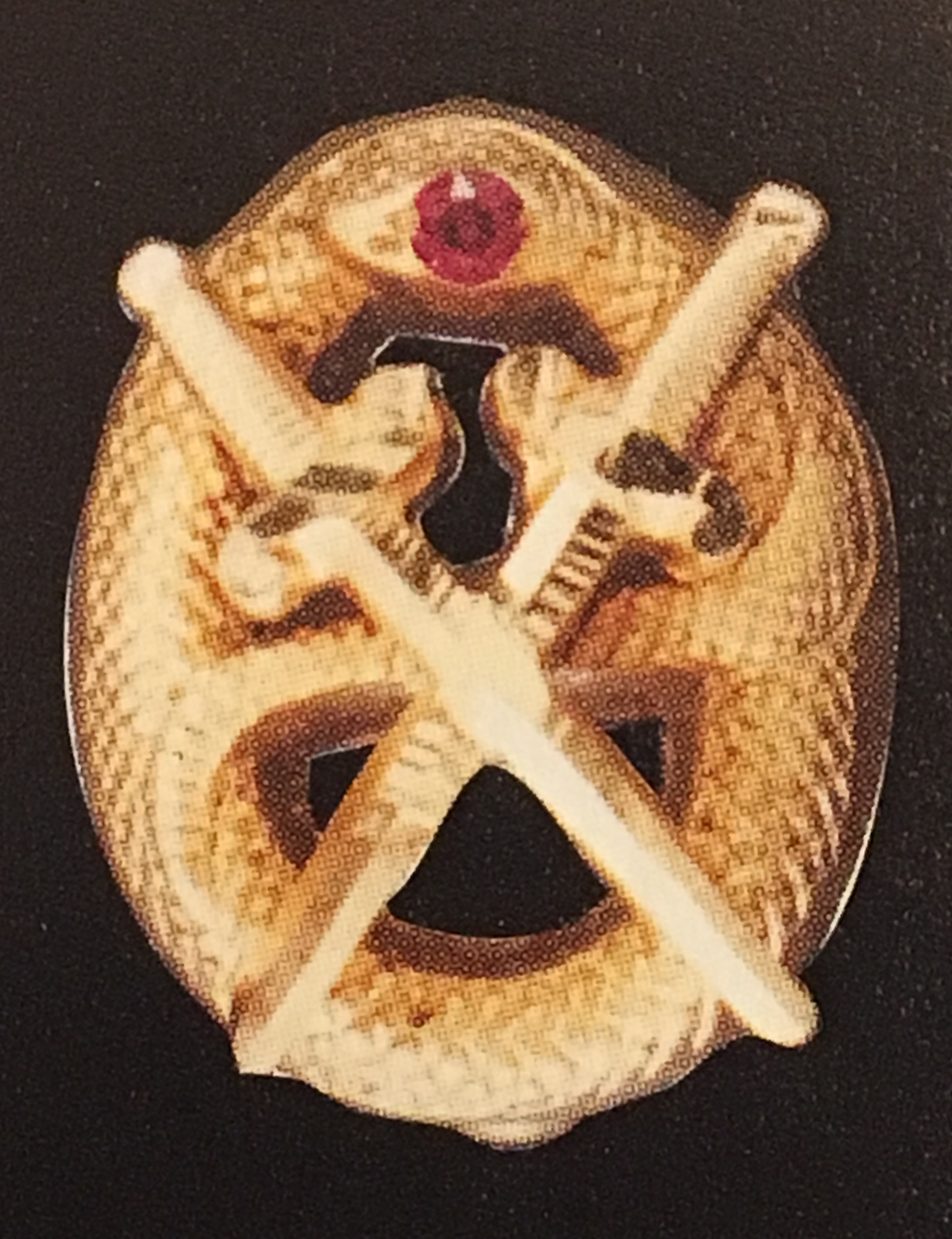 The Badge of Theta Chi